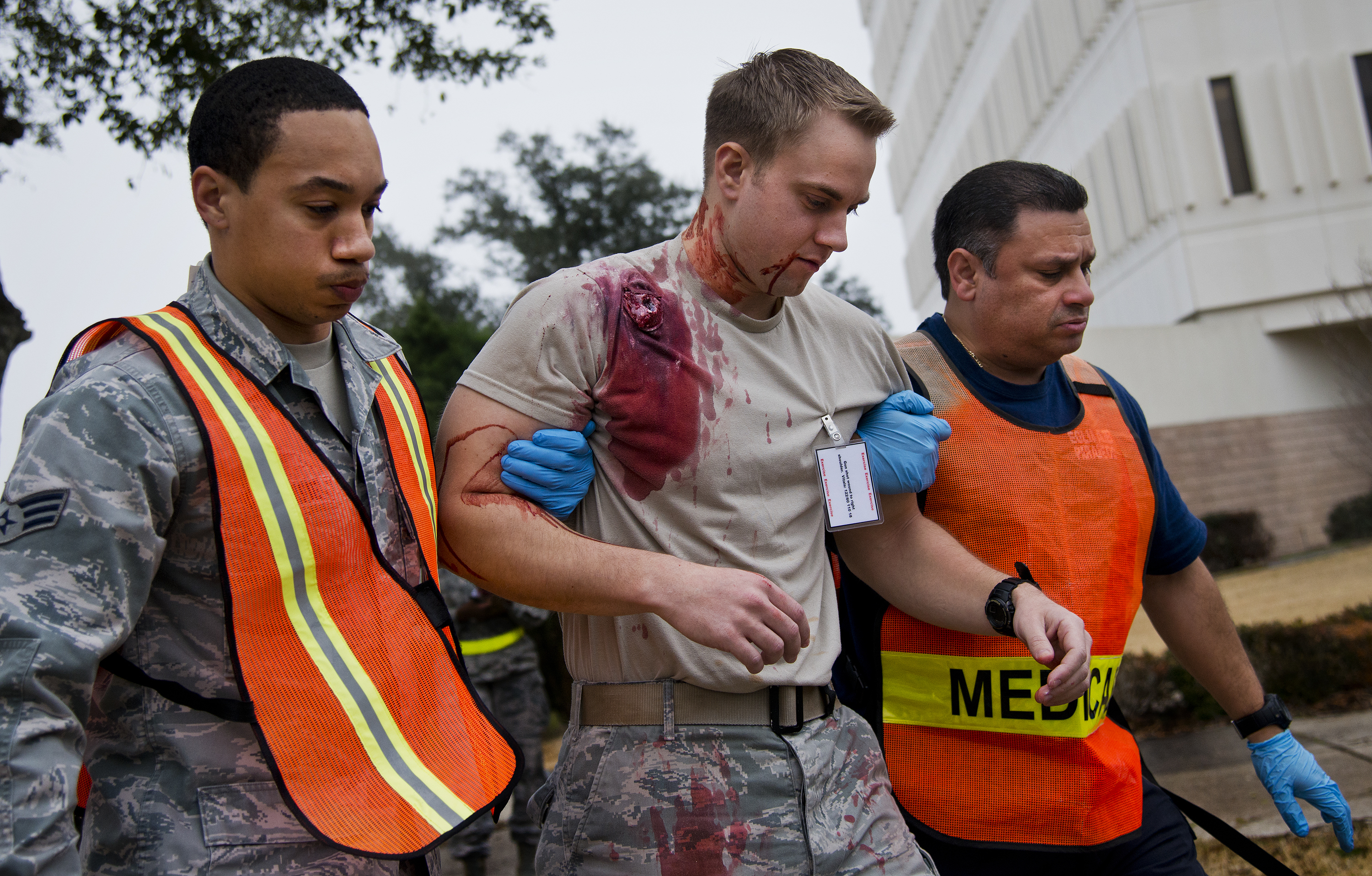 Emergency medical technicians from the 96th Medical Group move a wounded Airman toward safety during an active shooter exercise at Eglin Air Force Base, Fla., Feb. 4. The active-shooter was the second of a series of 96th Test Wing exercises occurring all week. (U.S. Air Force photo/Samuel King Jr.)